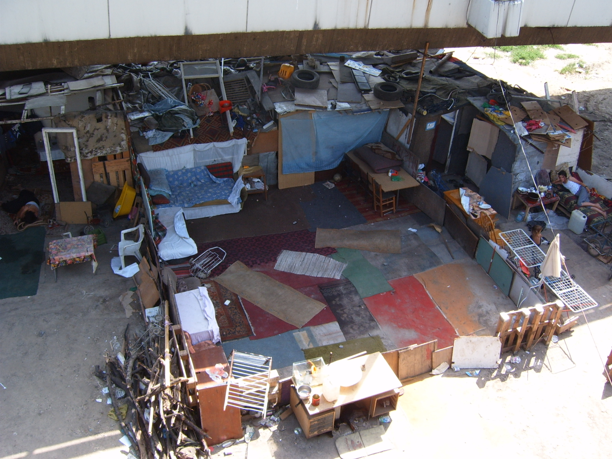 A typical "family house" in the Karton city (a Belgrade slum)